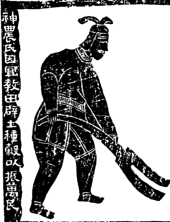 Shennong, the Farmer God, with his plow. Inscription reads: 'The Farmer God taught agriculture based on land use; he opened up the land and planted millet to encourage the myriad people (Birrell, Chinese Mythology, ISBN 0-8018-6183-7, p.48)